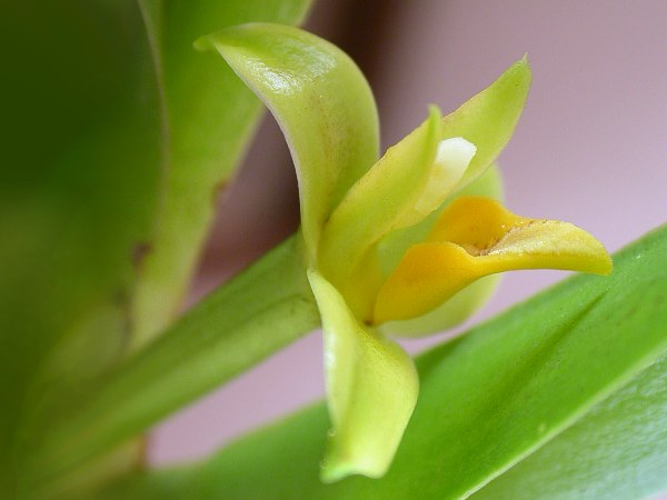 Heterotaxis crassifolia